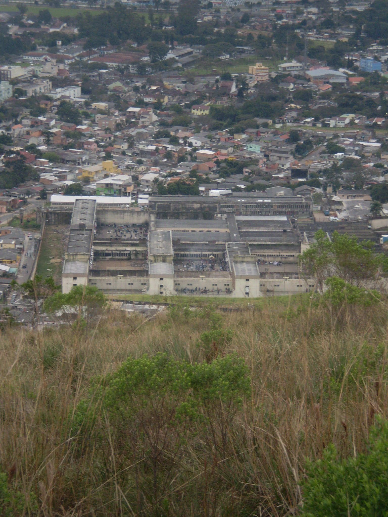 Jail of Porto Alegre seen from the Morro da Polícia.